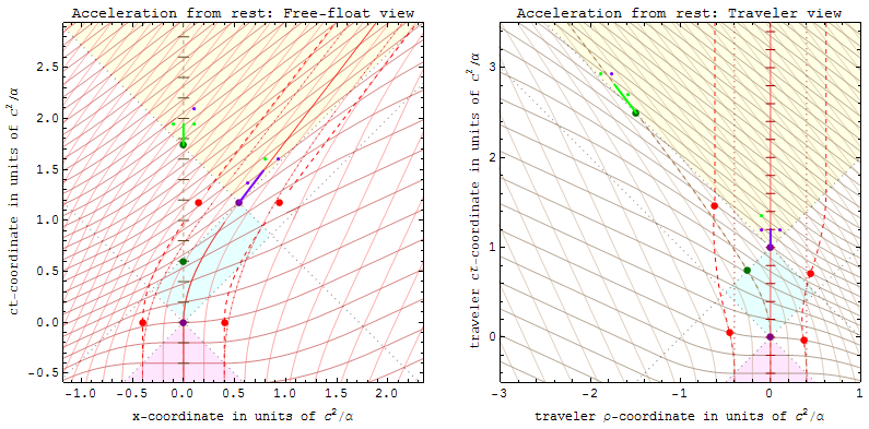 Two views of a year of one-gee constant proper-acceleration from rest: Metric-first kinematics[1] and radar-time simultaneity[2] show that acceleration curves flat space-time from an accelerated-traveler's perspective, and that rigidity is a locally-useful concept whose behavior over extended distances and times is more entertaining than a typical intro-physics course might lead you to believe. These plots are a direct consequence of special relativity i.e. of the flat-space Minkowski metric alone. Radar-separation ρ-cτ contours (red) used to define simultaneity for the accelerated traveler are plotted in the free-floating map-frame observer's x-ct space at left, while free-float-frame x-ct contours (brown) define simultaneity for map-frame observers in the traveler's ρ-cτ space at right. Co-moving free-float-frame hypersurfaces for the accelerated-traveler in the left panel will be straight lines tangent to the corresponding radar-hypersurface, at the point of contact with the (solid red) traveling observer's world line. The dashed red curves correspond to objects accelerated from rest in parallel to the primary (red) object, but initially positioned a distance L = ±0.4c2/α ahead and behind. The large red dots correspond to ignition and shutdown events for these parallel-accelerated worldlines. The ends of comparable object exhibiting "smart rigidity" (see discussion below) are marked with red dotted-lines. The free-float-frame (reference map) origin in both figures is a dashed brown line, while the accelerated traveler trajectory is in red. Two large purple dots mark the start and end of traveler acceleration, while two large green dots mark float-frame-origin light pulses that might trigger and then detect the traveler's acceleration shutdown. Another six events are shown as smaller bright-green or indigo dots in both panels.